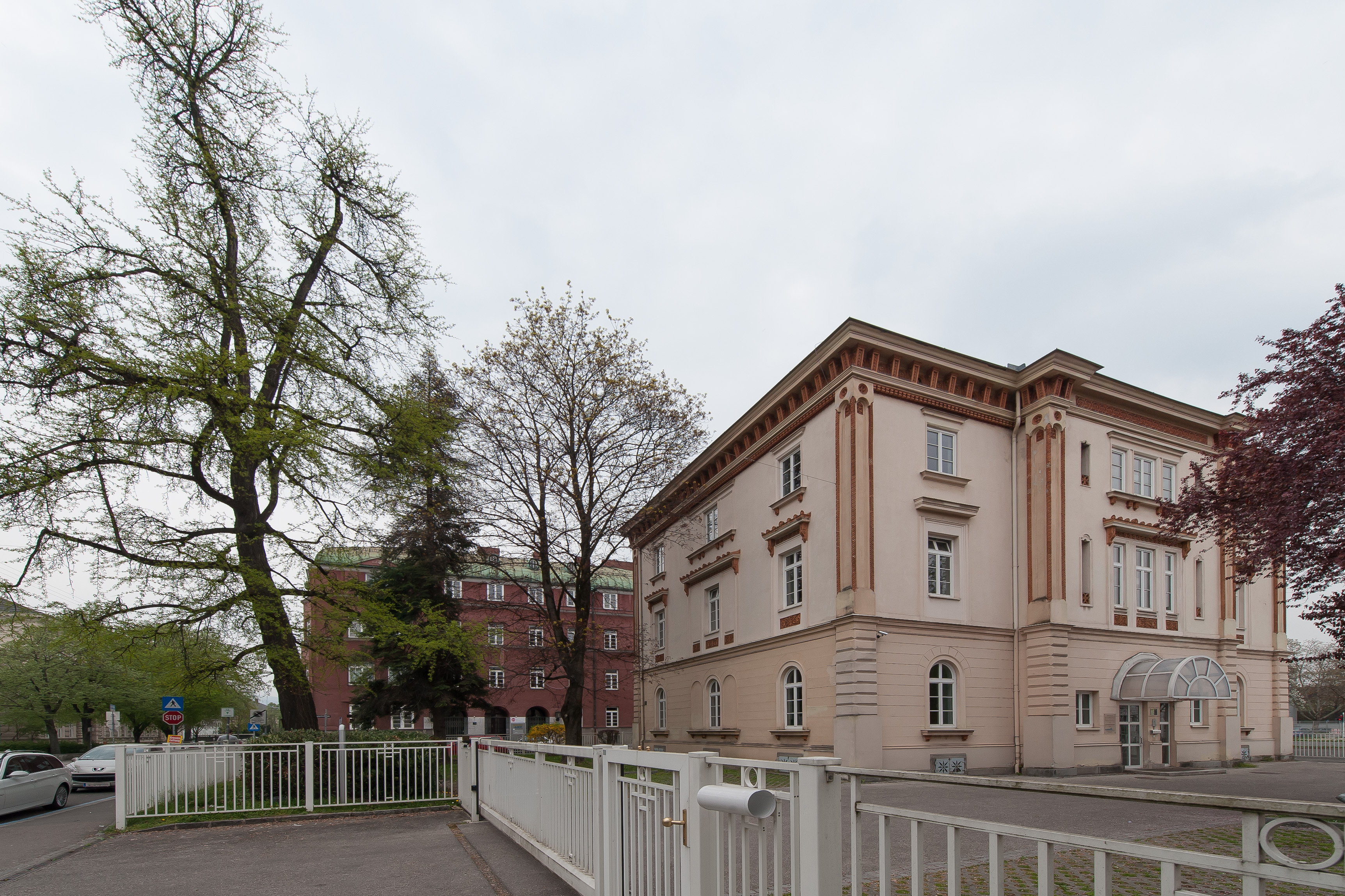 This media shows the natural monument in Upper Austria with the ID nd069. Ginkobaum